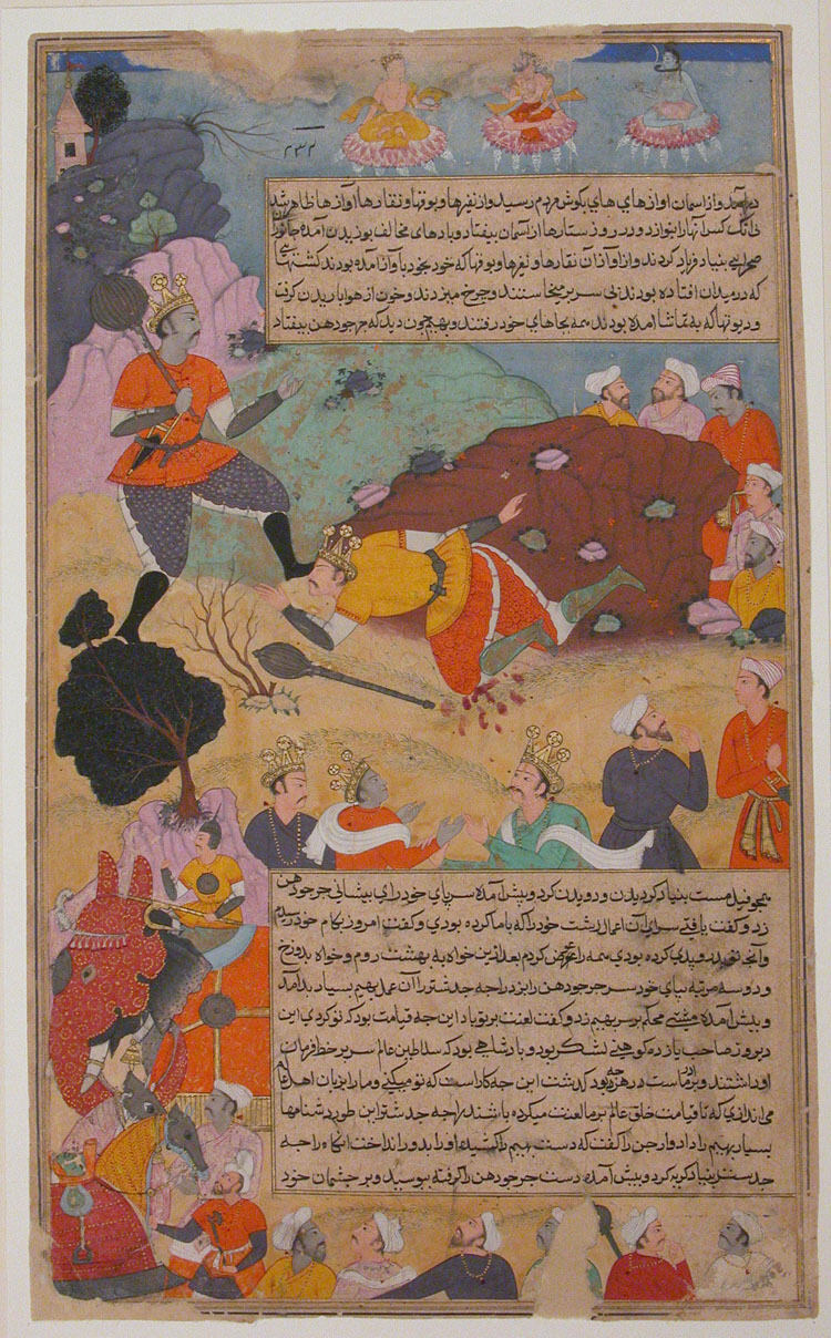 Illustrated manuscript, folio